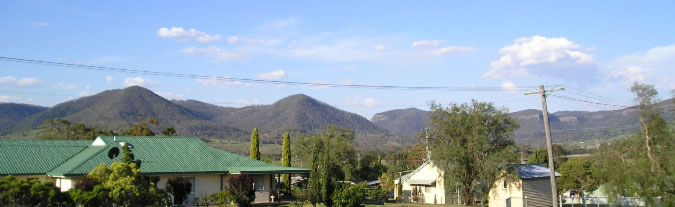 Looking North over the Killarney Aged Care Centre towards the hills